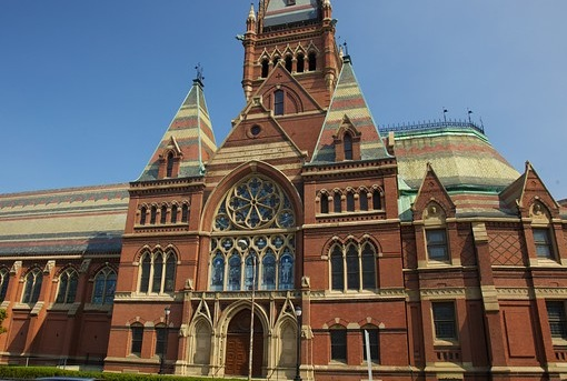 Harvard University